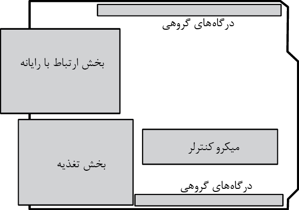 بخش های اصلی برد آردوینو